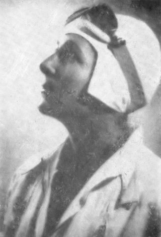 Marina Știrbei (alt. Știrbey), as aviatrix.